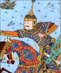 Painting of Gustaham in The Shahnama of Shah Tahmasp